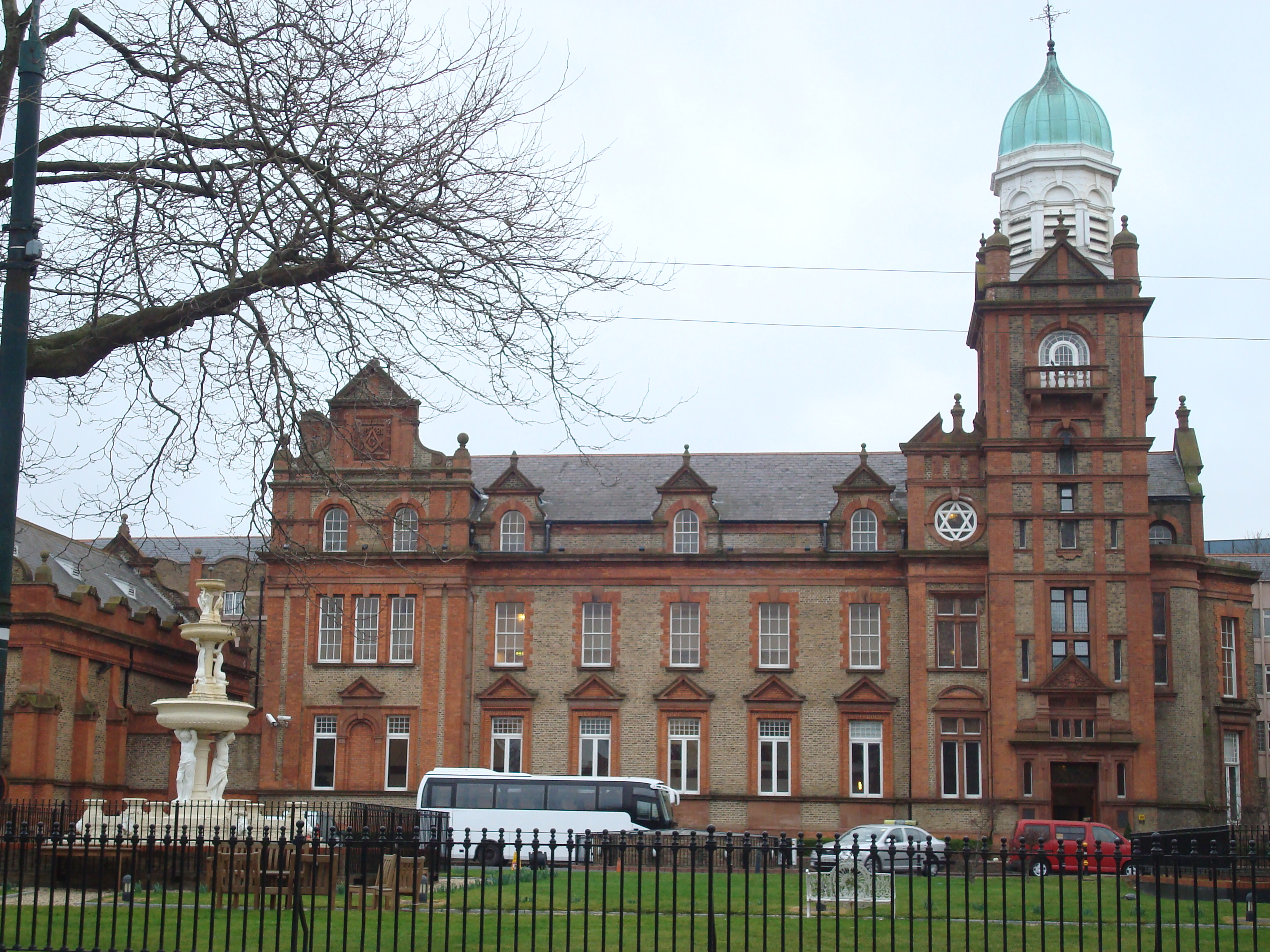 Bewley's Hotel, Ballsbridge, Dublin, Ireland (Note: Rebranded in 2015 as Clayton Hotel Ballsbridge. See [1])